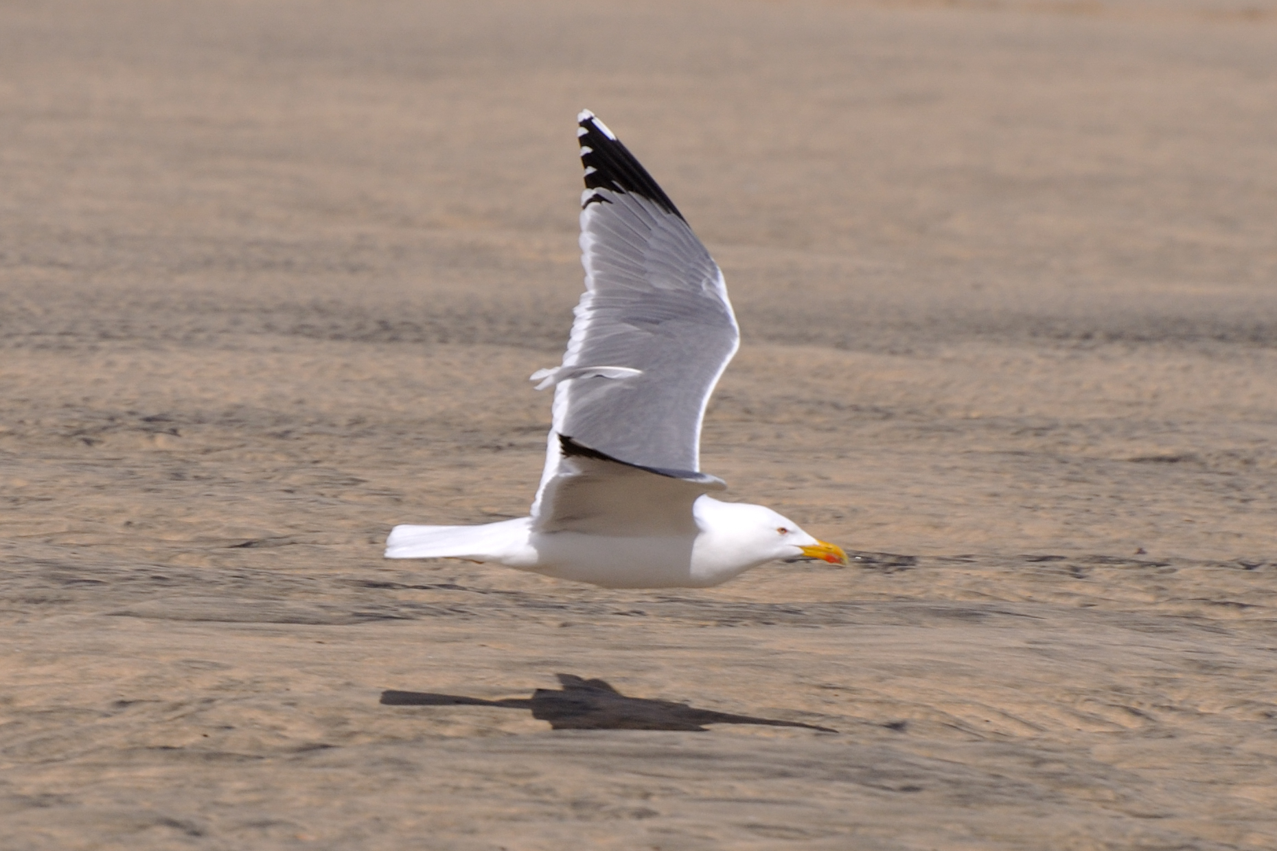 Spain, birds on the beach in Fuerteventura